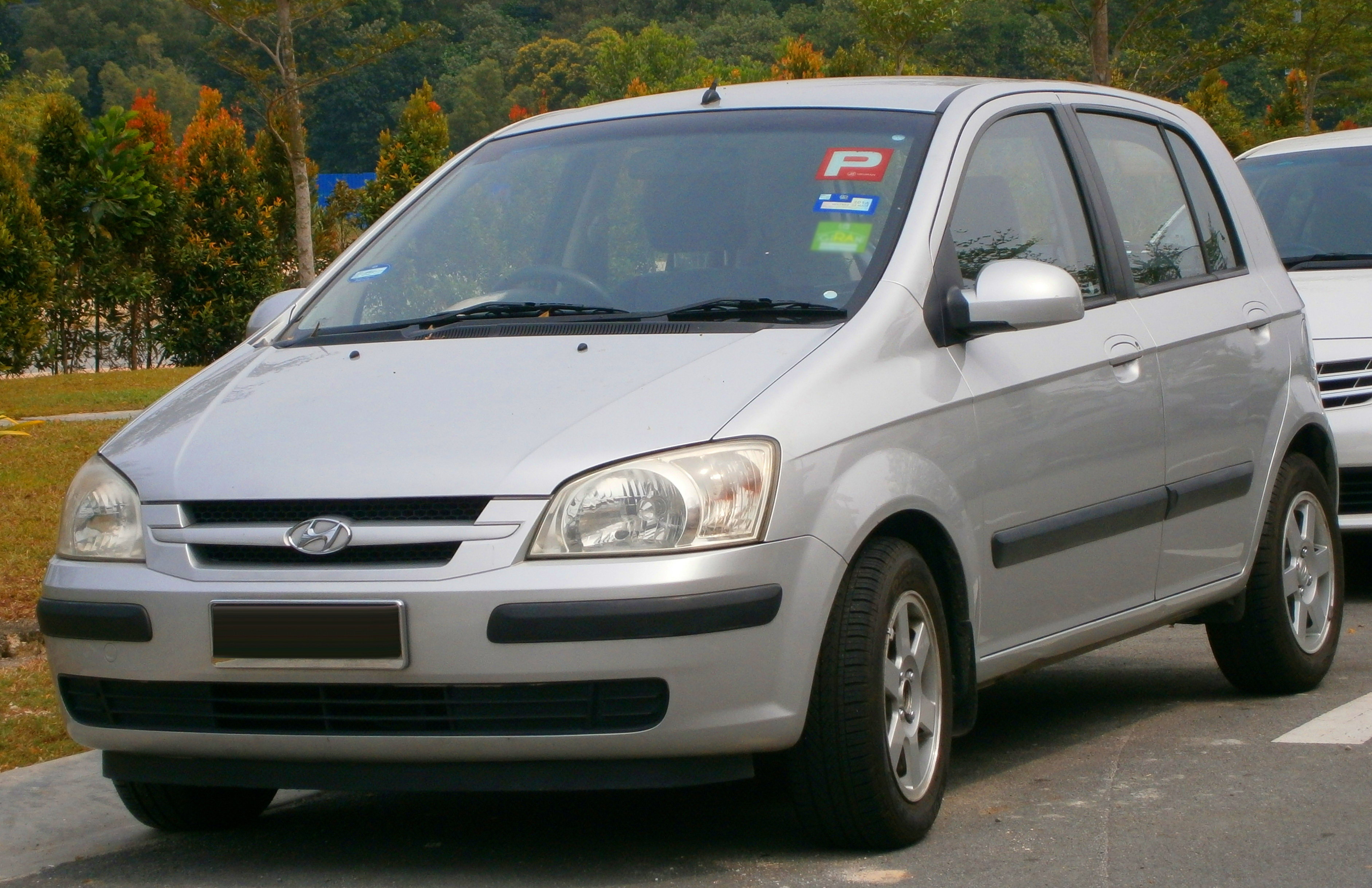 2004 Hyundai Getz GL 5-door hatchback in Puchong, Malaysia. Designed in Germany & South Korea + , Assembled in Malaysia